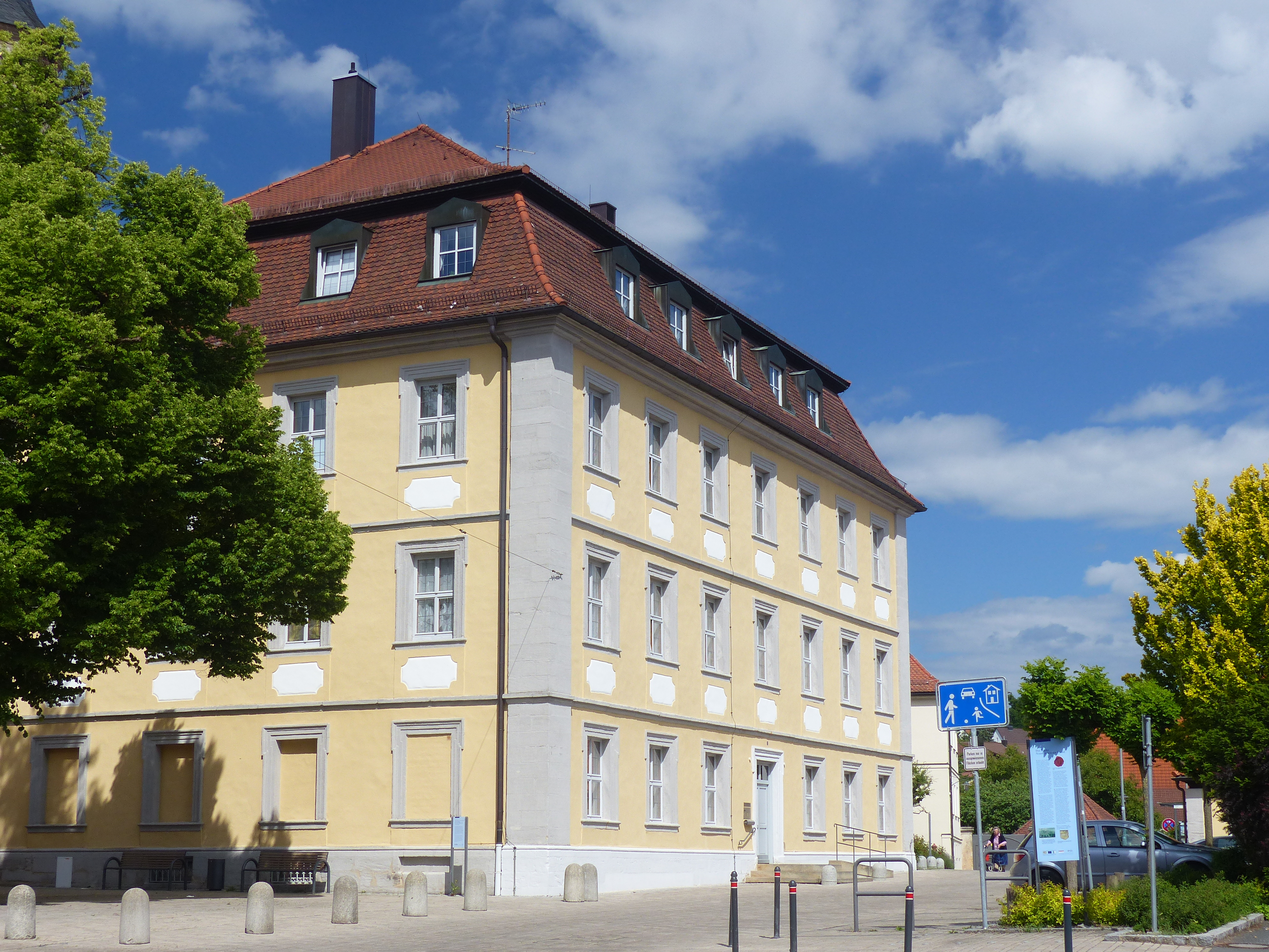 The former Amtshaus (official residence) of the Amt Neunkirchen, an administrative body of the Prince-Bishopric of Bamberg.